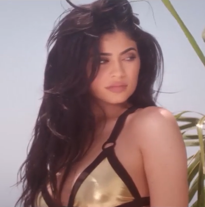 Kylie Jenner at photoshoot for Kendall + Kylie Swimwear at Topshop